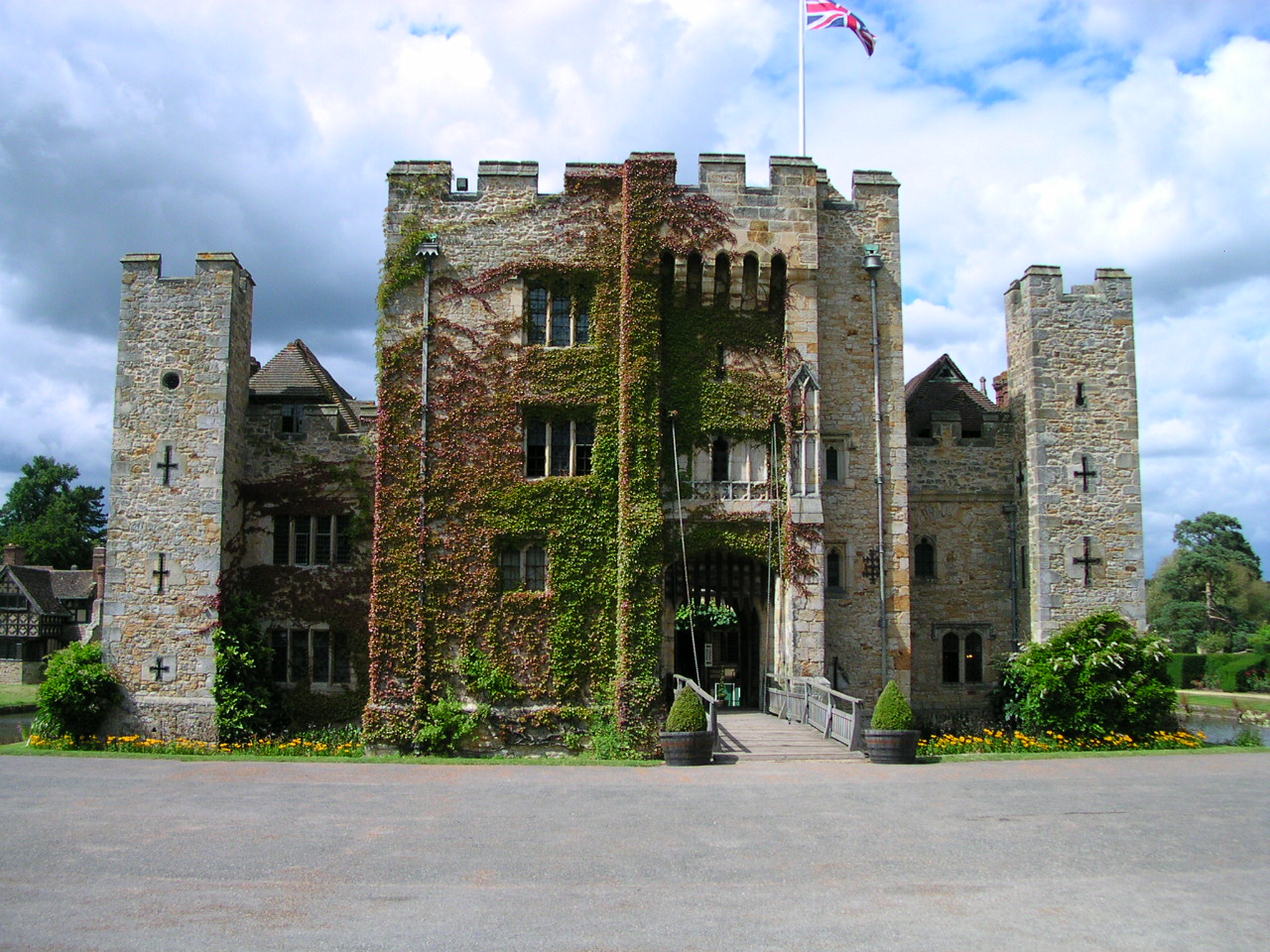 Hever Castle, Kent, England.